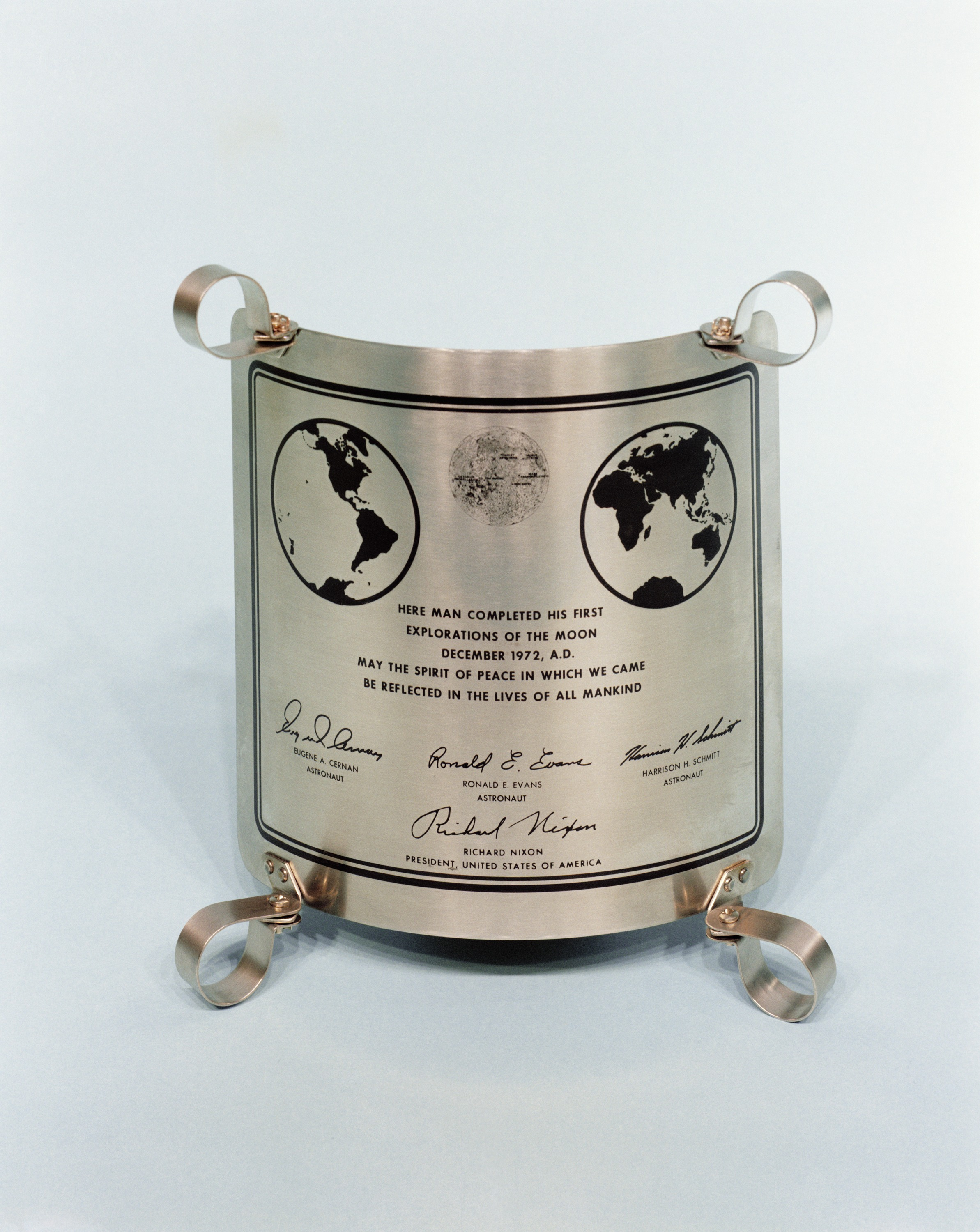 View of the plaque to be left at the Taurus-Littrow lunar landing site by the Apollo 17 astronauts. The commemorative plaque is made of stainless steel measuring nine by seven by five-eighths inches and one-sixteenth inch thick. It is attached to the ladder on the landing gear strut on the descent stage of the Apollo 17 Lunar Module "Challenger".